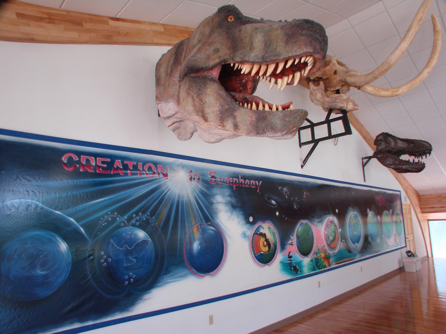 Some of the dinosaur skulls on exhibit at Creation Evidence Museum, as well as a cast of what is probably the world's largest mastodon skull.